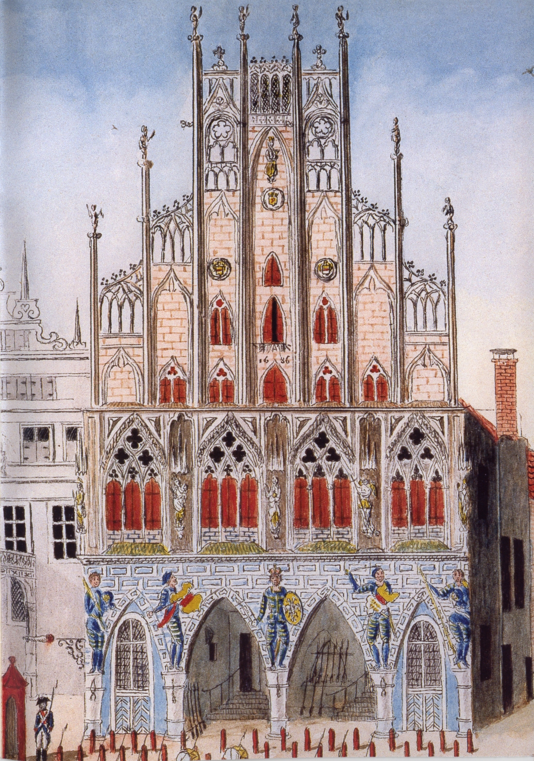 The historical city hall of Münster, Westphalia, Germany, around 1800. Colored feather-drawing of a french script